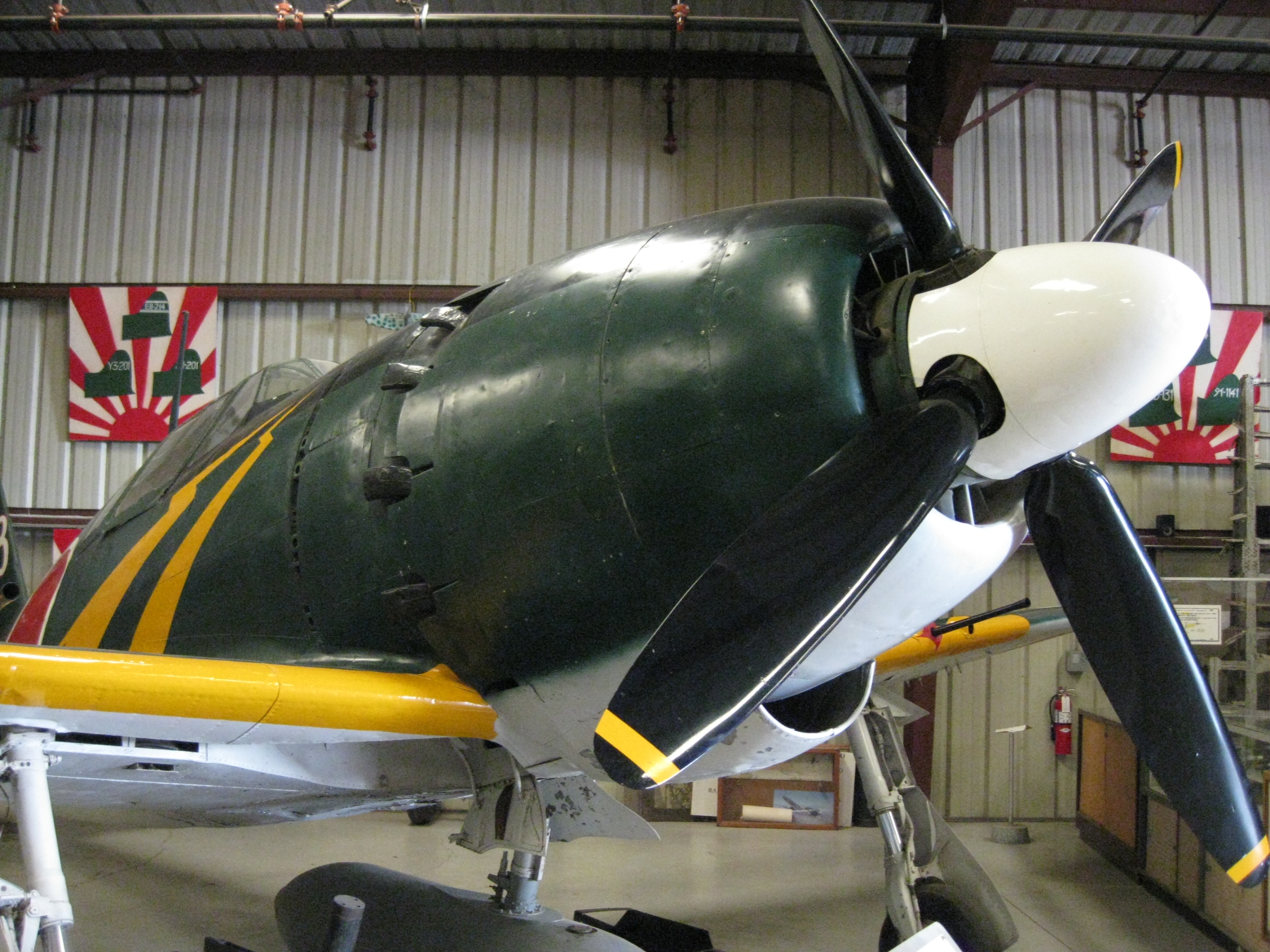 Front view of the Planes of Fames' J2M3